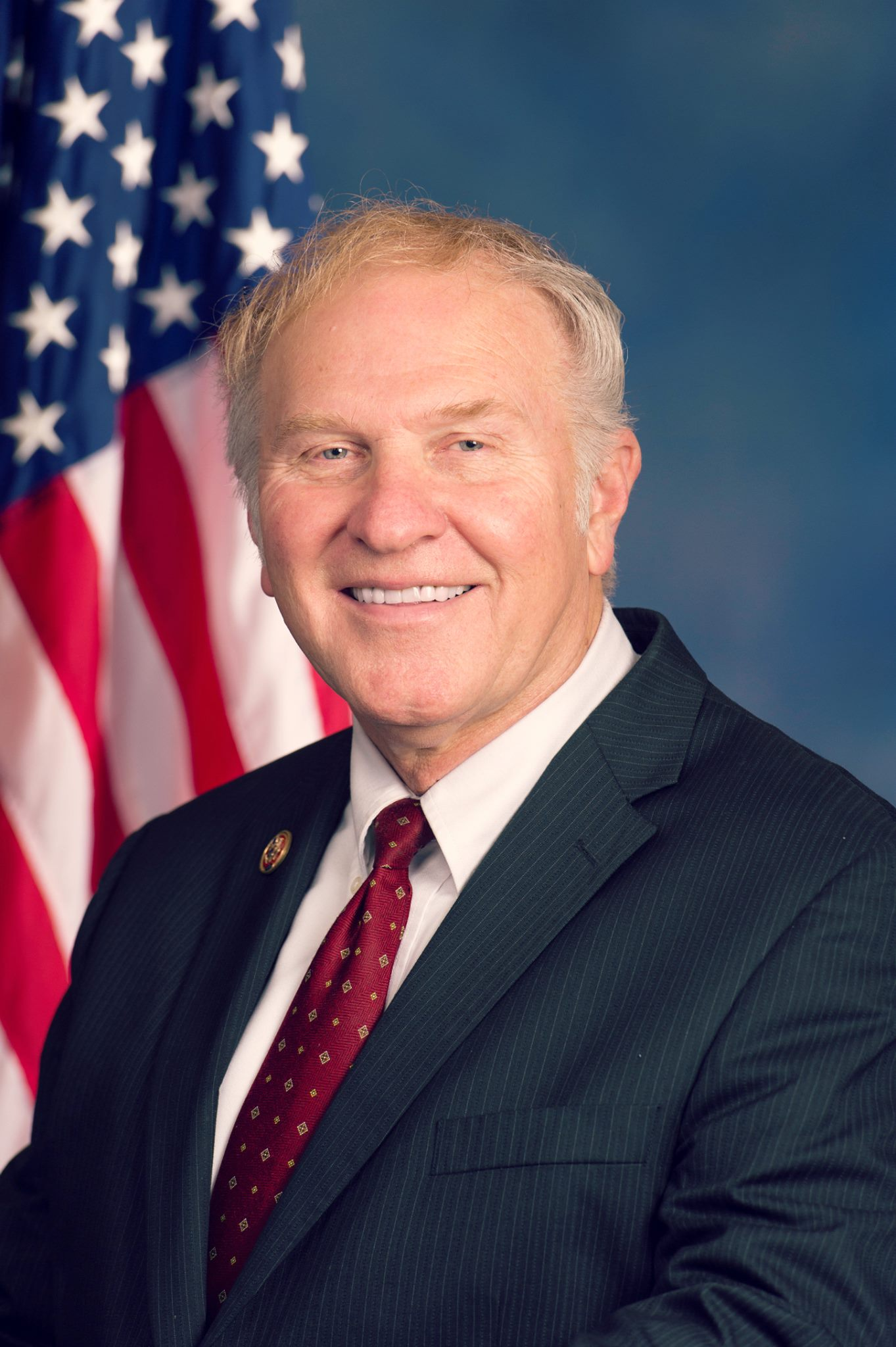 Portrait of US Rep. Steve Chabot